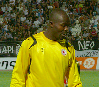 Daniel Bekono in friendly game PAOK - CSKA in Thessaloniki on 18 august 2008.